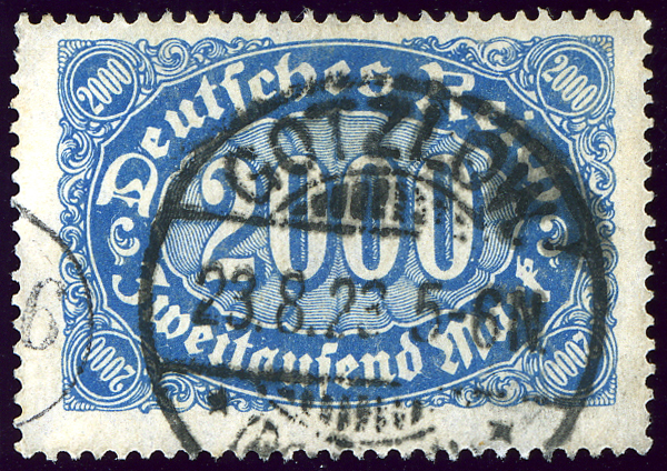 Stamp of Germany, inflation 2000 Mark, issue January 1923, cancelled at GOTZLOW (now Poland) on 23-8-1923. Michel N°253.